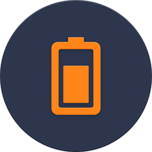 Avast Battery Saver logo